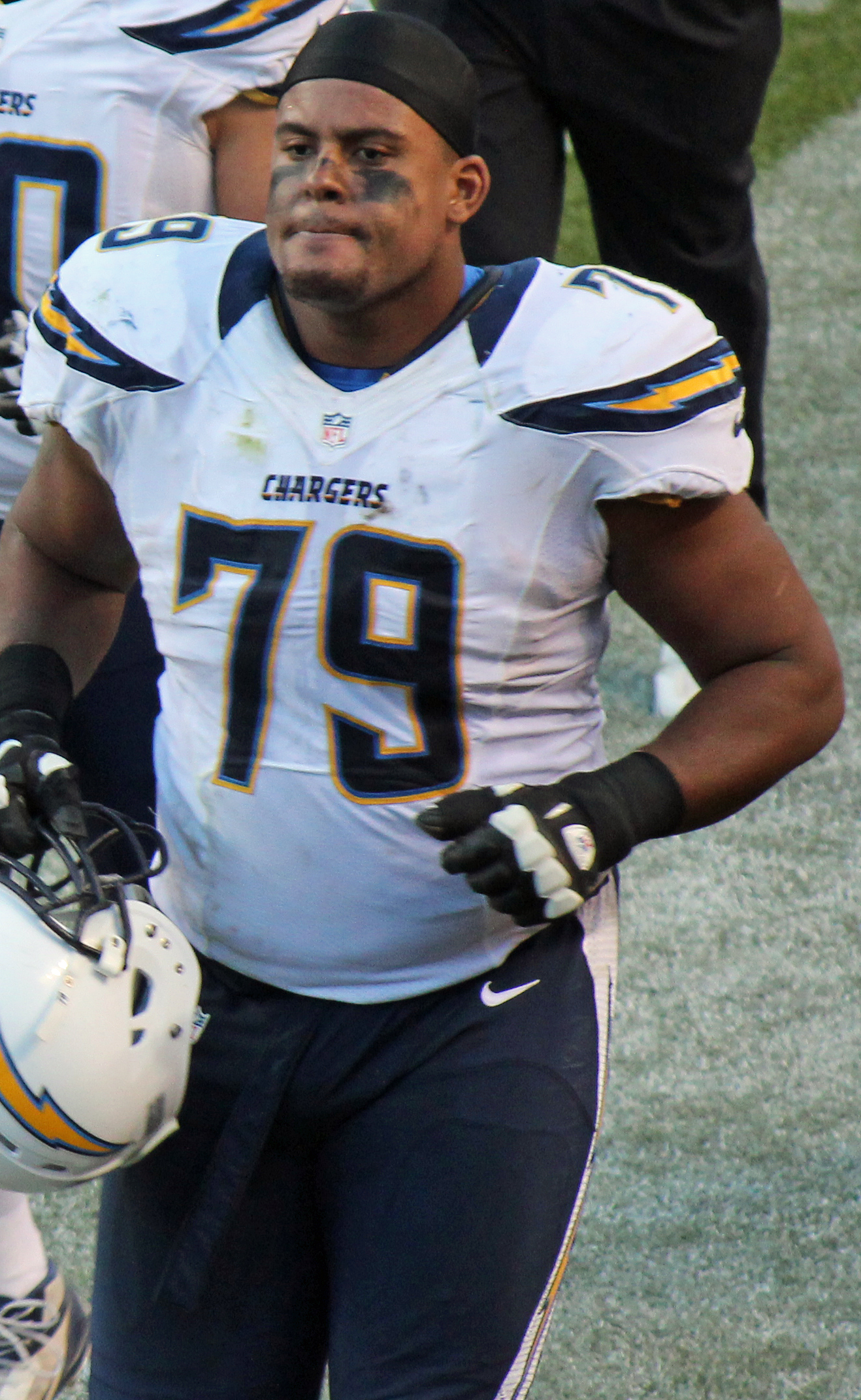 Michael Harris, a player on the National Football League.